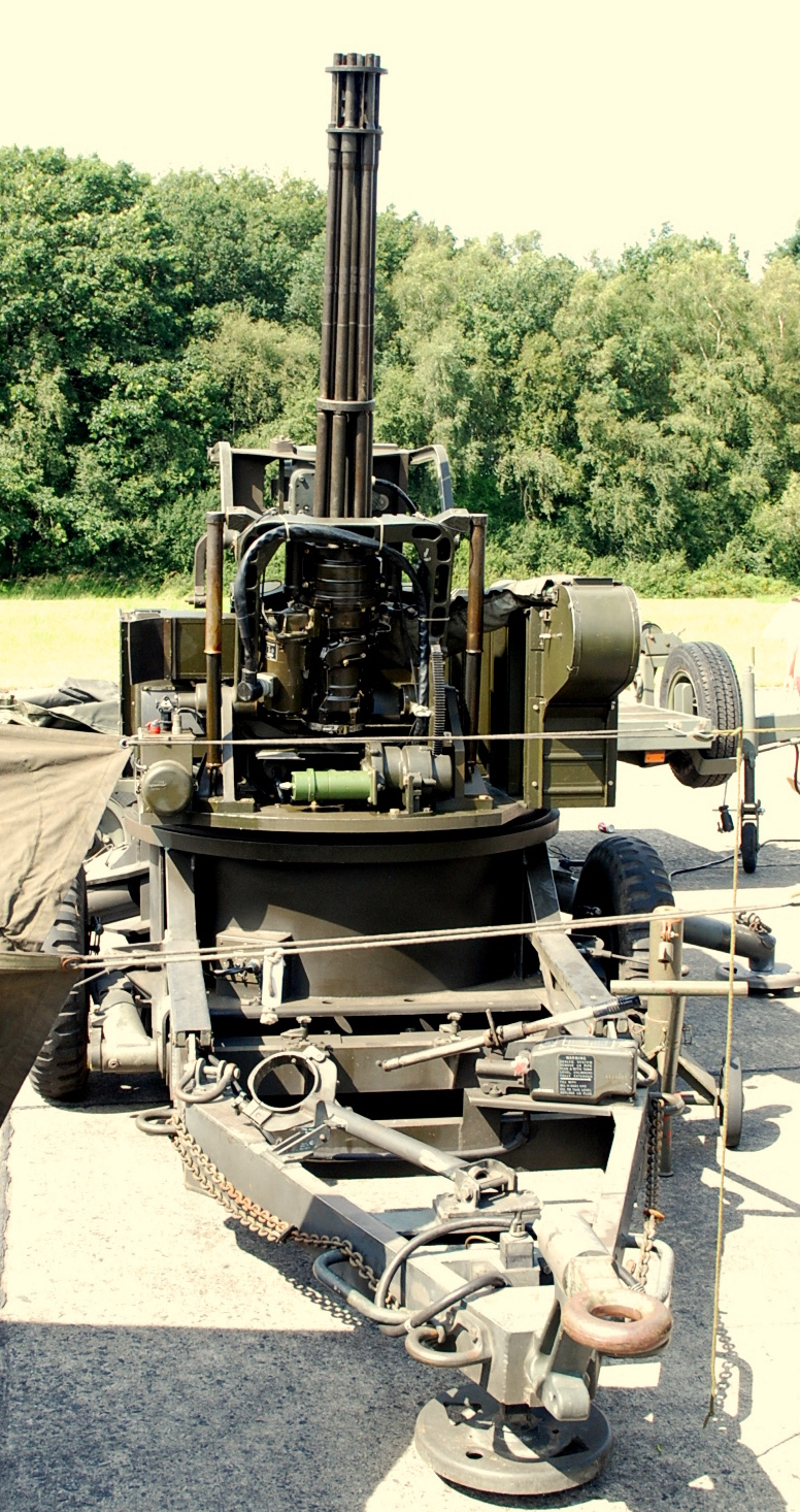 M167 Vulcan air defense system 20 mm (M167 VADS)